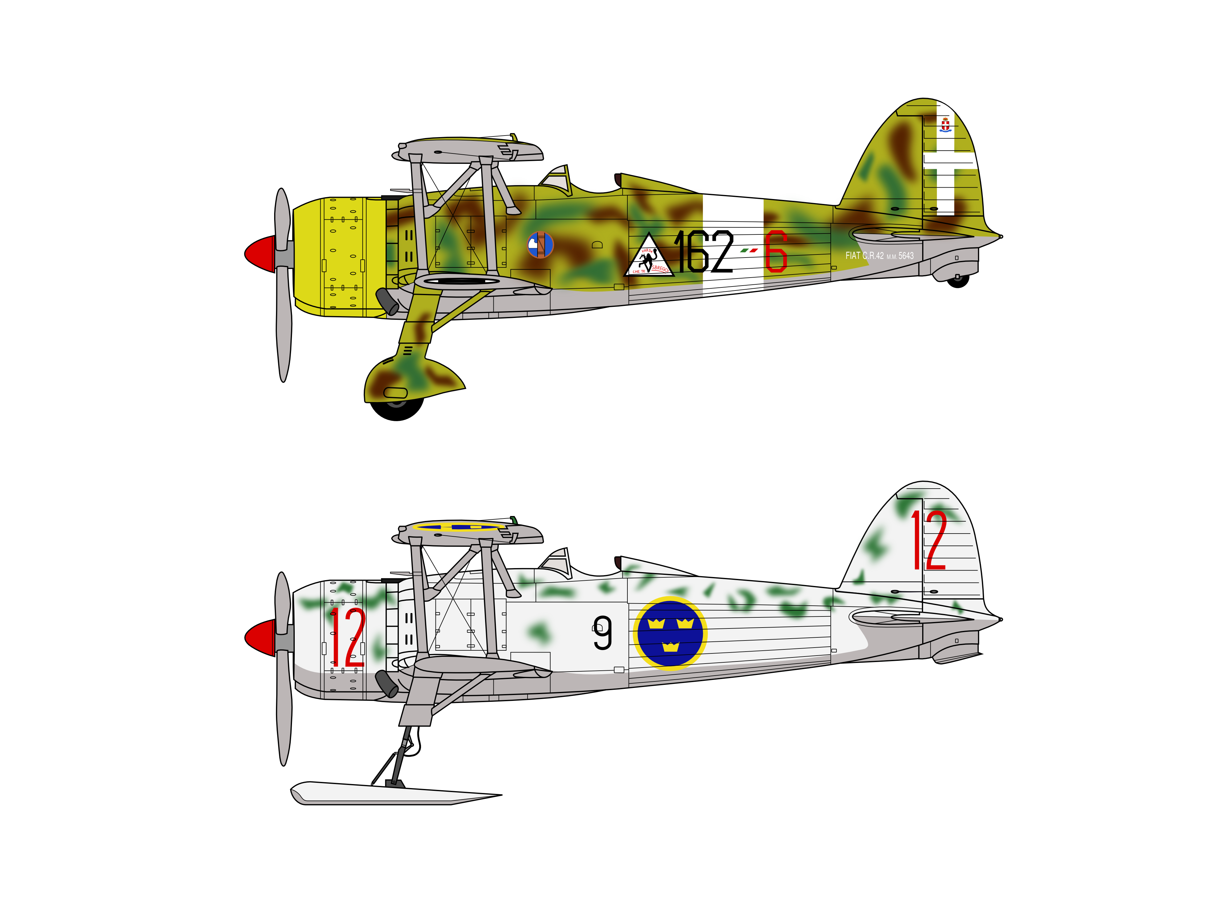 Two profiles of Italian World War II fighter biplane Fiat C.R.42 Falco. Top: A Fiat C.R.42 of Regia Aeronautica's 162nd Squadron (162a Squadriglia), 161st Autonomous Land Fighter Group (46o Gruppo Autonomo C.T.) based in Maritsa, Rhodes, Greece in 1942. This aircraft, rebuilt using many original parts, has been on display since 2005 at the Italian Air Force Museum in Vigna di Valle, not far from Rome. Bottom: A Fiat C.R.42 of Svenska Flygvapnet's Wing F 9, based in Kiruna, Sweden, in 1942. Note the skis that replaced the original wheeled undercarriage for winter operations in northern climates.